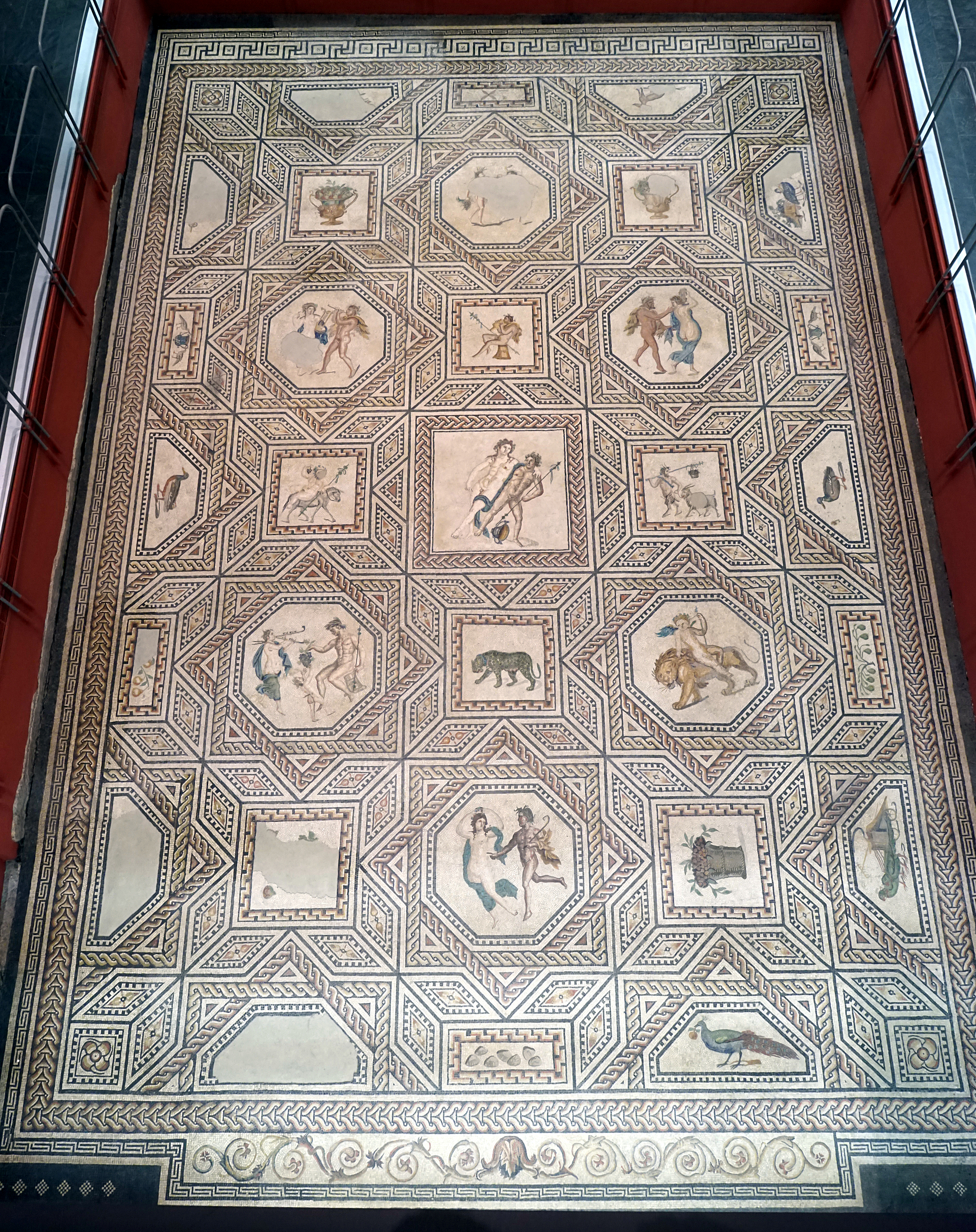 The Ancient Roman floor mosaic depicting dionysiac scenes (Dionysosmosaik), dating from the 220s AD. Exhibited in the "Römisch-Germanisches Museum" in Cologne (Germany).